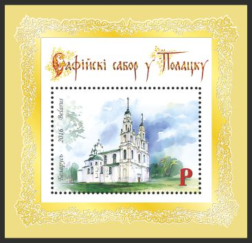 Saint Sophia Cathedral in Polack.